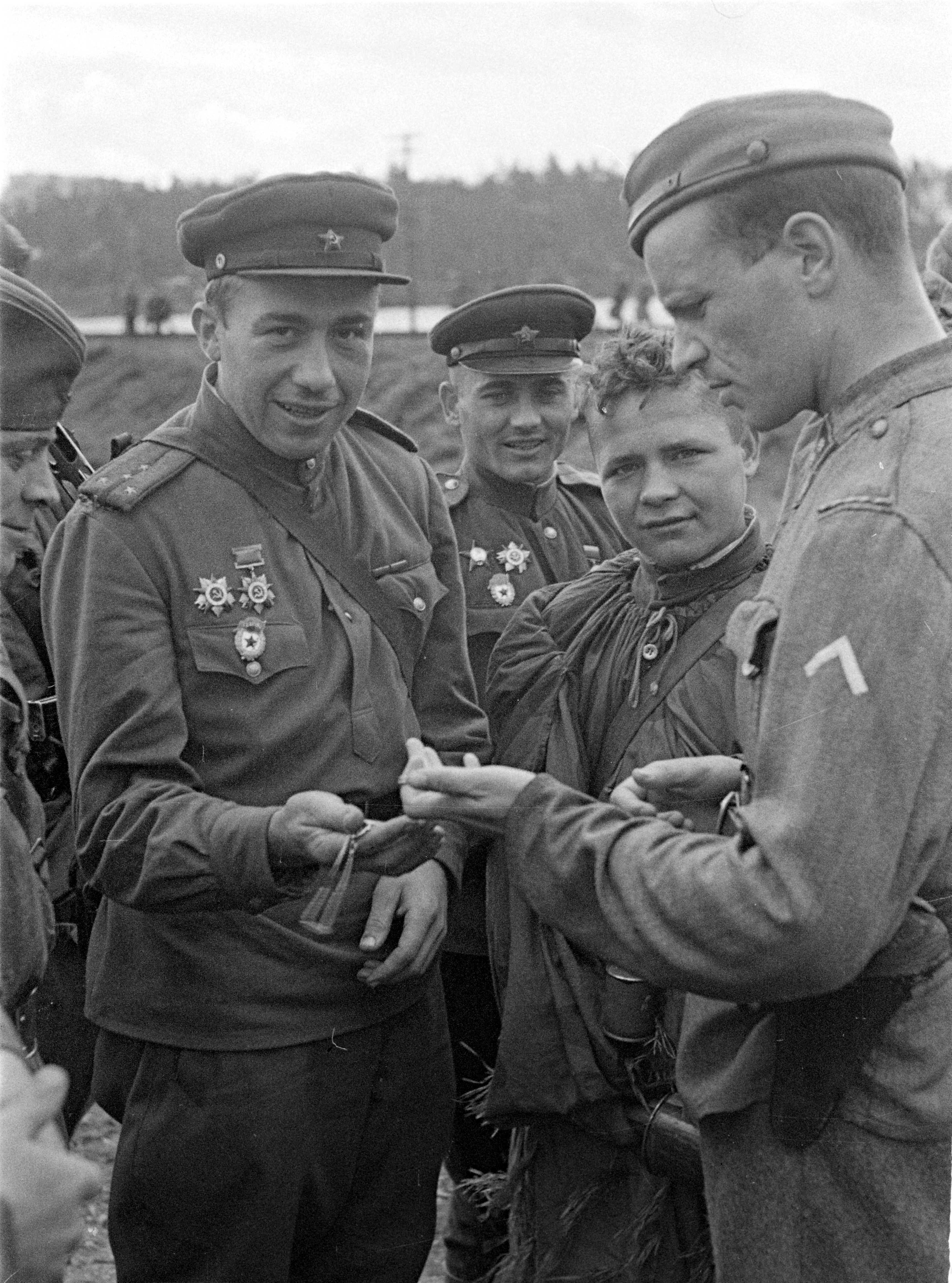 A Soviet officer (left) and a Finnish corporal comparing their watches during the ceasefire of the Continuation War. Vyborg, Sorvali railroad bridge area.